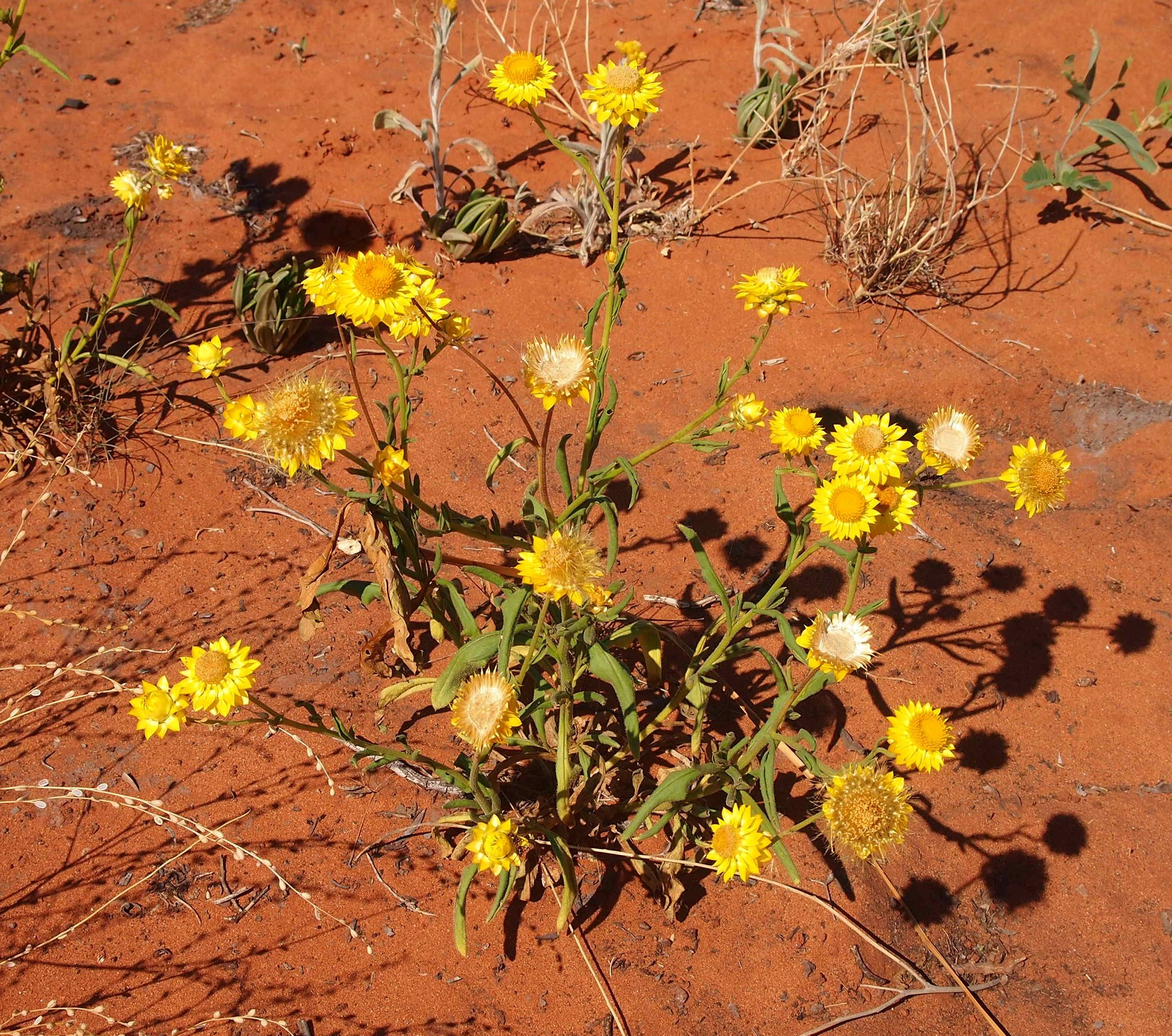 Xerochrysum bracteatum habit